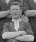 Detail of Kennedy from photograph of the 1913, RMC Duntroon, First XVIII.